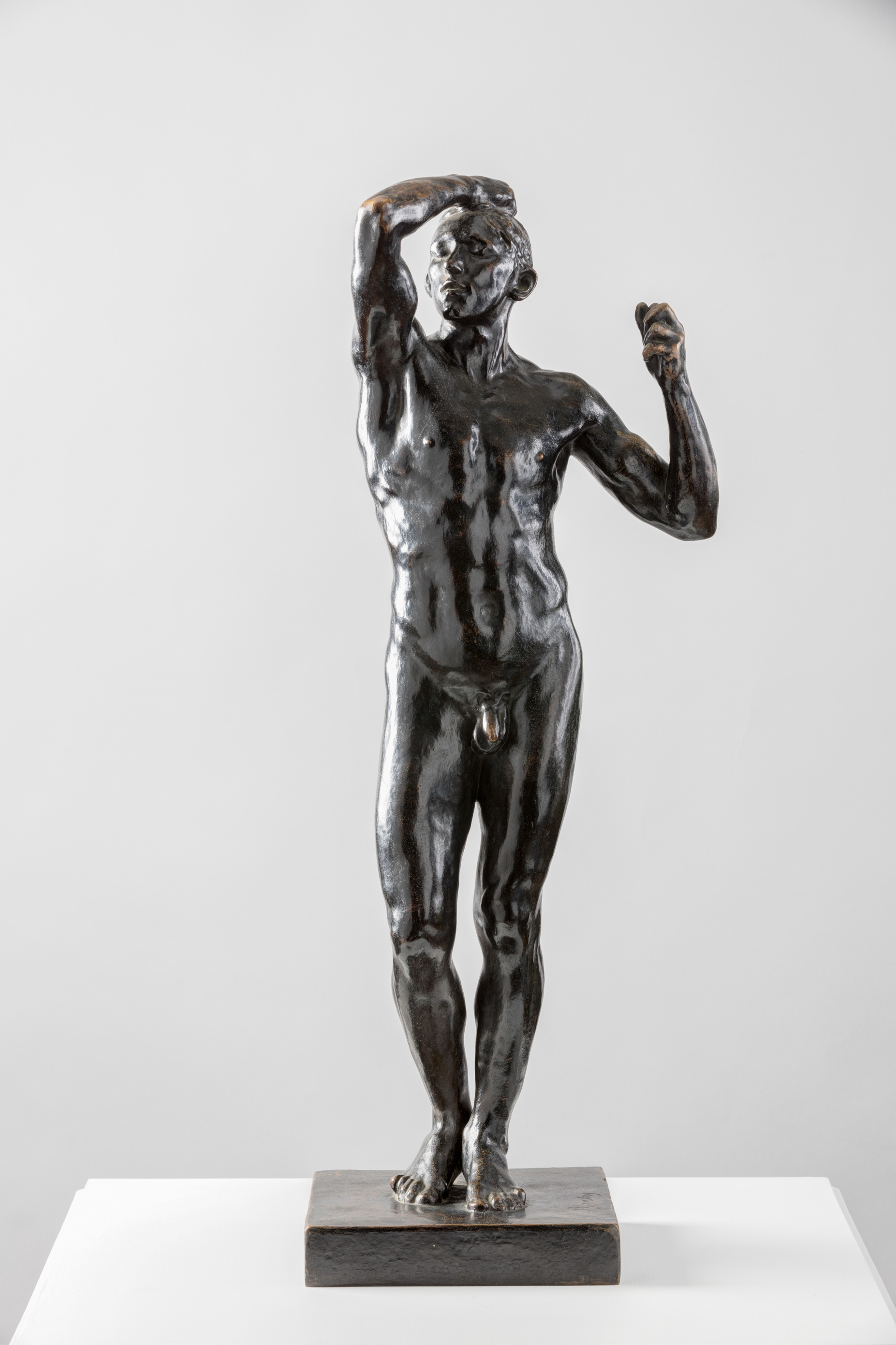 The Edge of Bronze